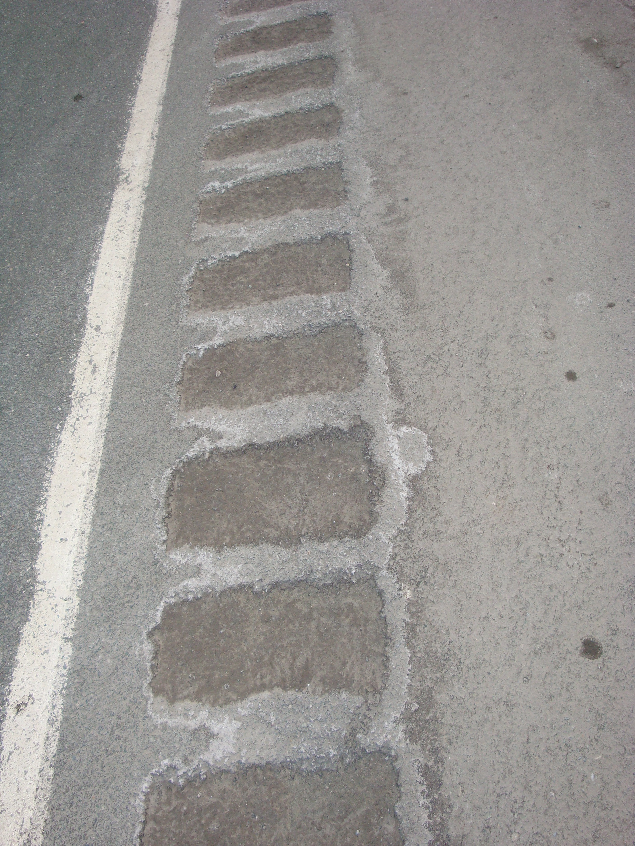 Traction sand filled shoulder rumble strip from Canadian highway.